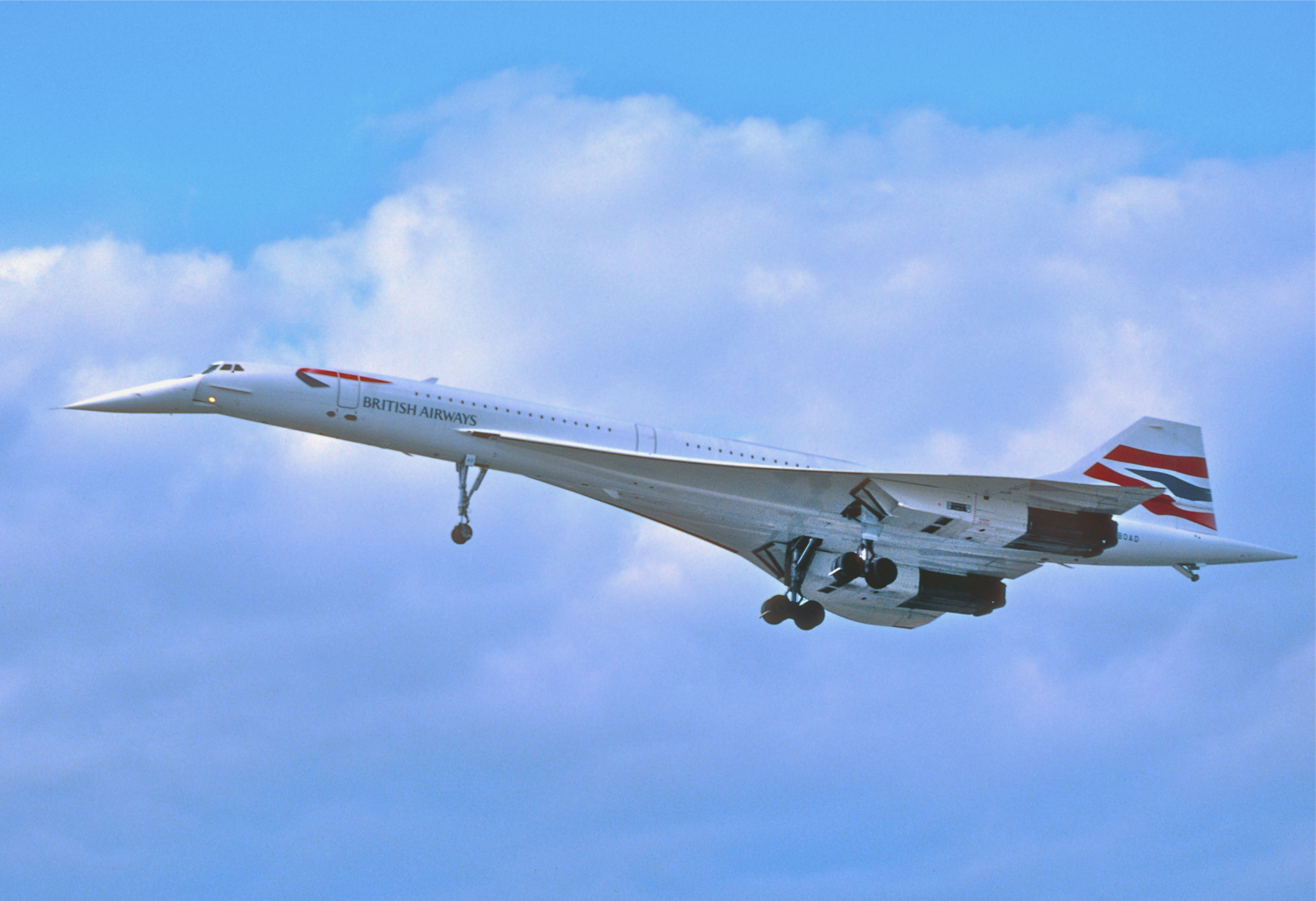 First flight: August 25, 1976, delivery to BA: December 6, 1976...(c/n 210), this aircraft made the last Concorde flight, on November 10, 2003, LHR - JFK... Now on display at Pier 86 in New York...